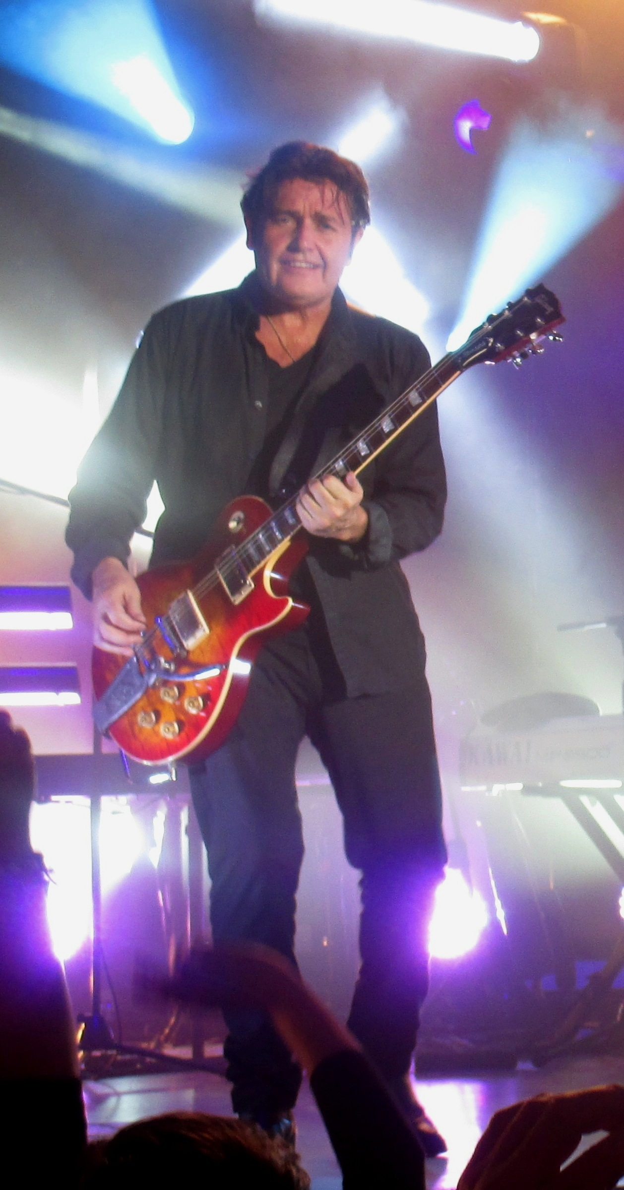 Charlie Burchill in a Simple Minds concert in Hanover